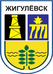 Zhigulyovsk (Samara oblast), soviet coat of arms